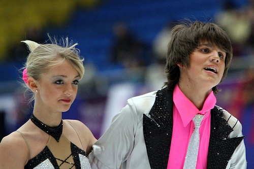 Alexandra Stepanova / Ivan Bukin at the 2010-2011 Junior Grand Prix of Figure Skating Final.